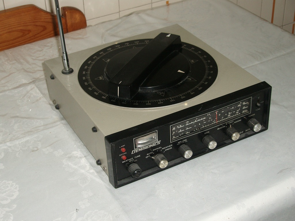 Gemtronics GT-302 Accumatic marine ADF